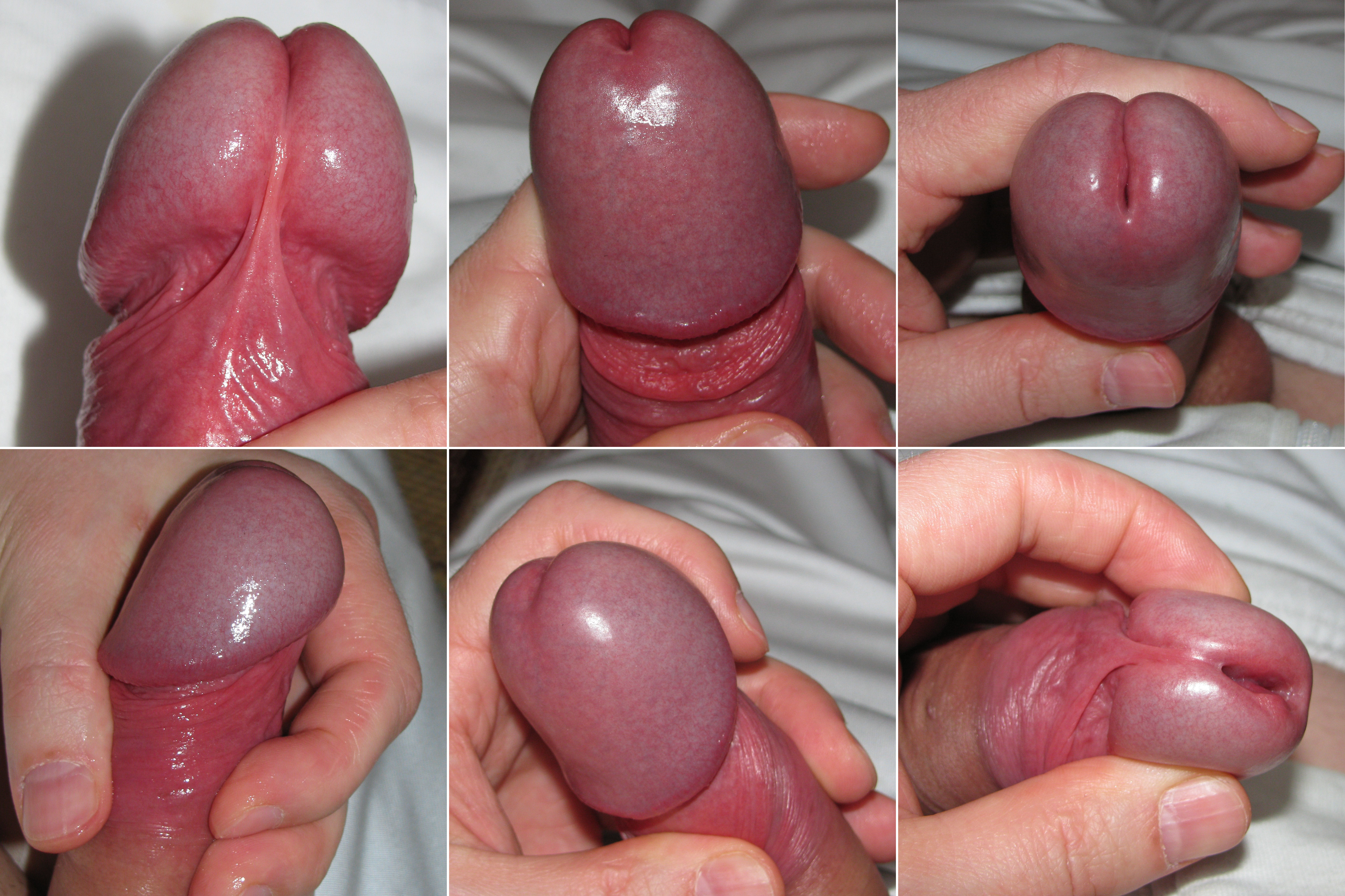 A high resolution collage of human glans penis (male age 34).